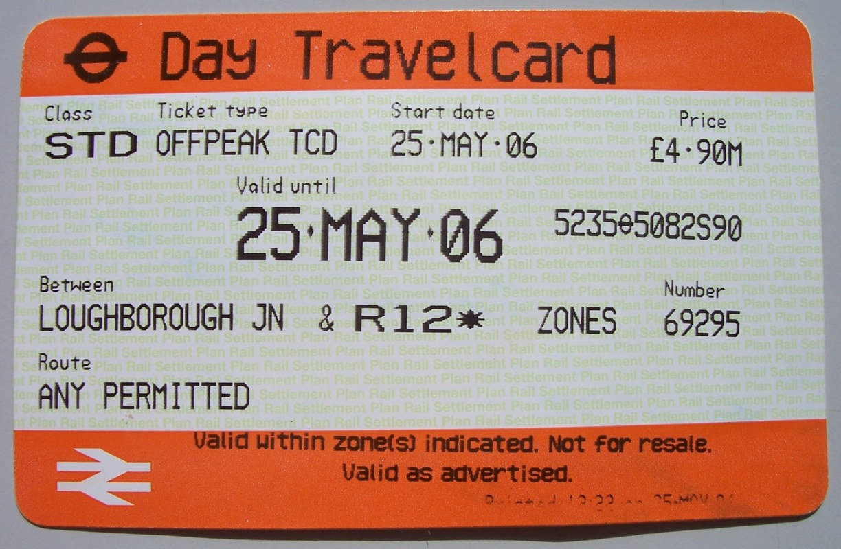 National Rail Day Travelcard valid for zones 1 and 2, bought at Loughborough Junction railway station on 2006/05/25.